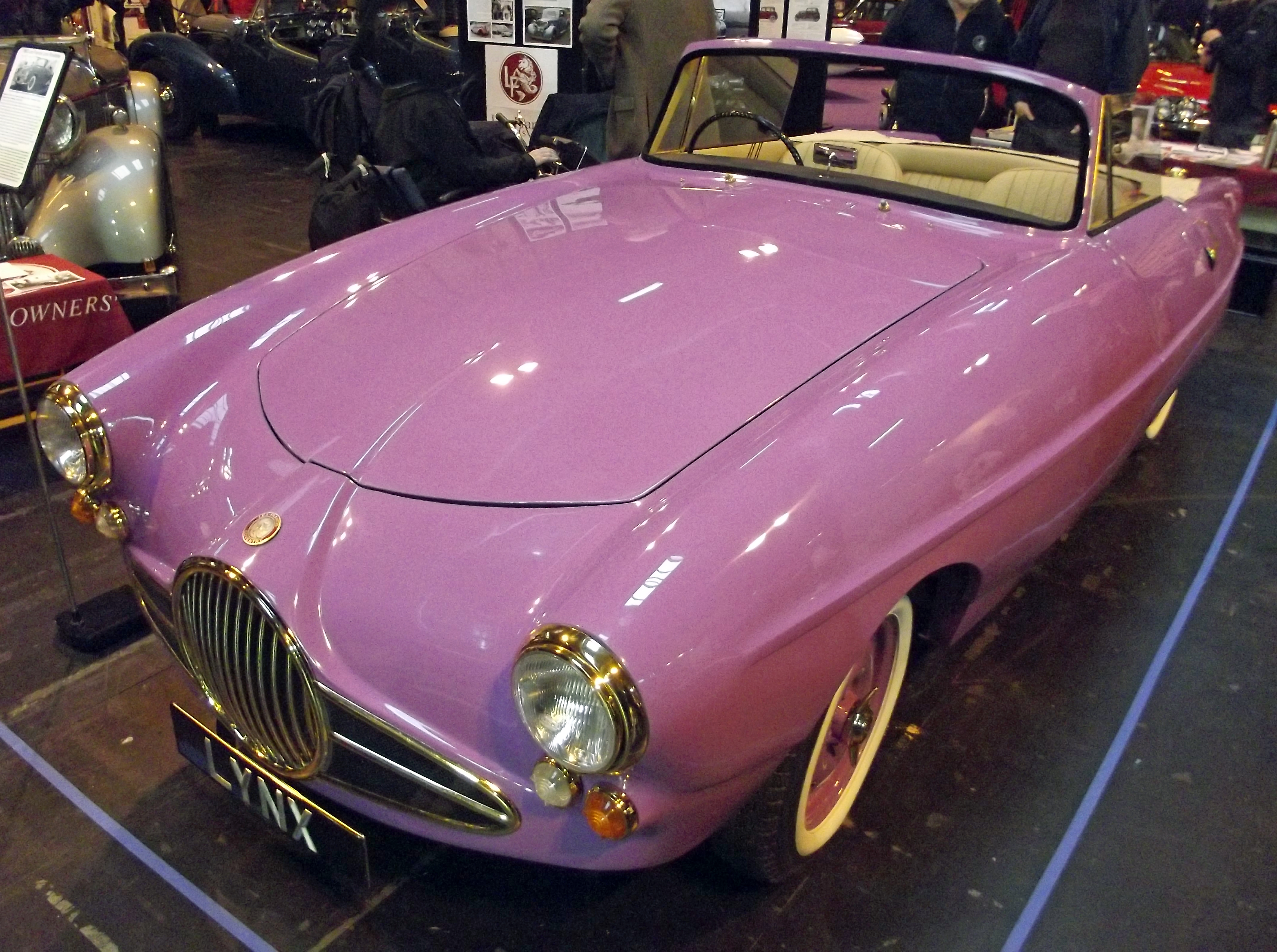 The Lea-Francis Lynx, thankfully it remained a prototype with only three built. Lavender (mauve?) paint and gold trim is original.